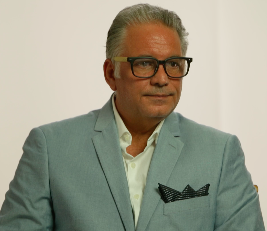 Angel Luis Arambilet Alvarez current photo.